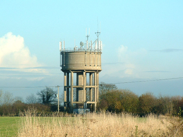 Spaldington, Water Tower, east south east of Spaldington, East Riding of Yorkshire, England.Beside the A614 Between Howden and Welhambridge.